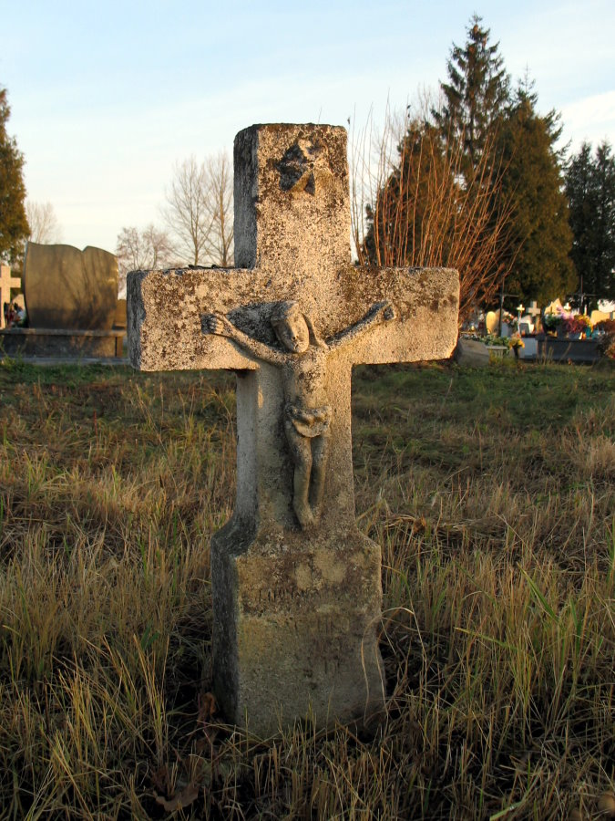 Makowisko village in Poland. Cross from Brusno.